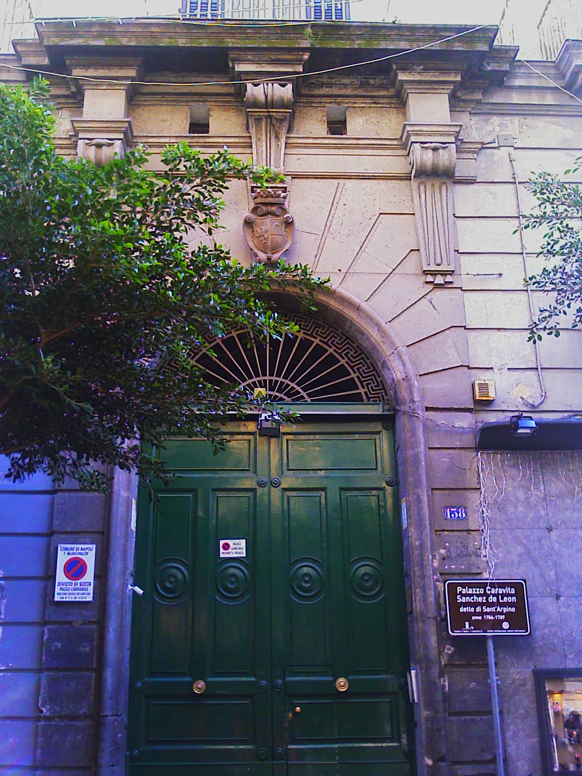 Portal